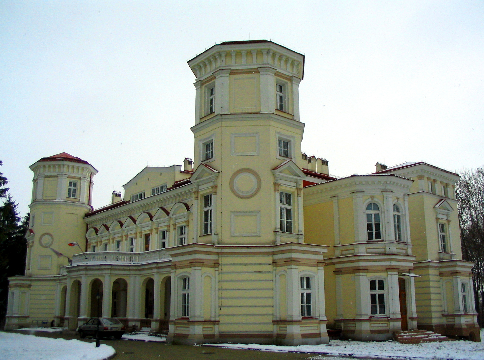 Lubomirski's Palace in Przemyśl, Poland. Państwowa Wyższa Szkoła Wschodnioeuropejska.